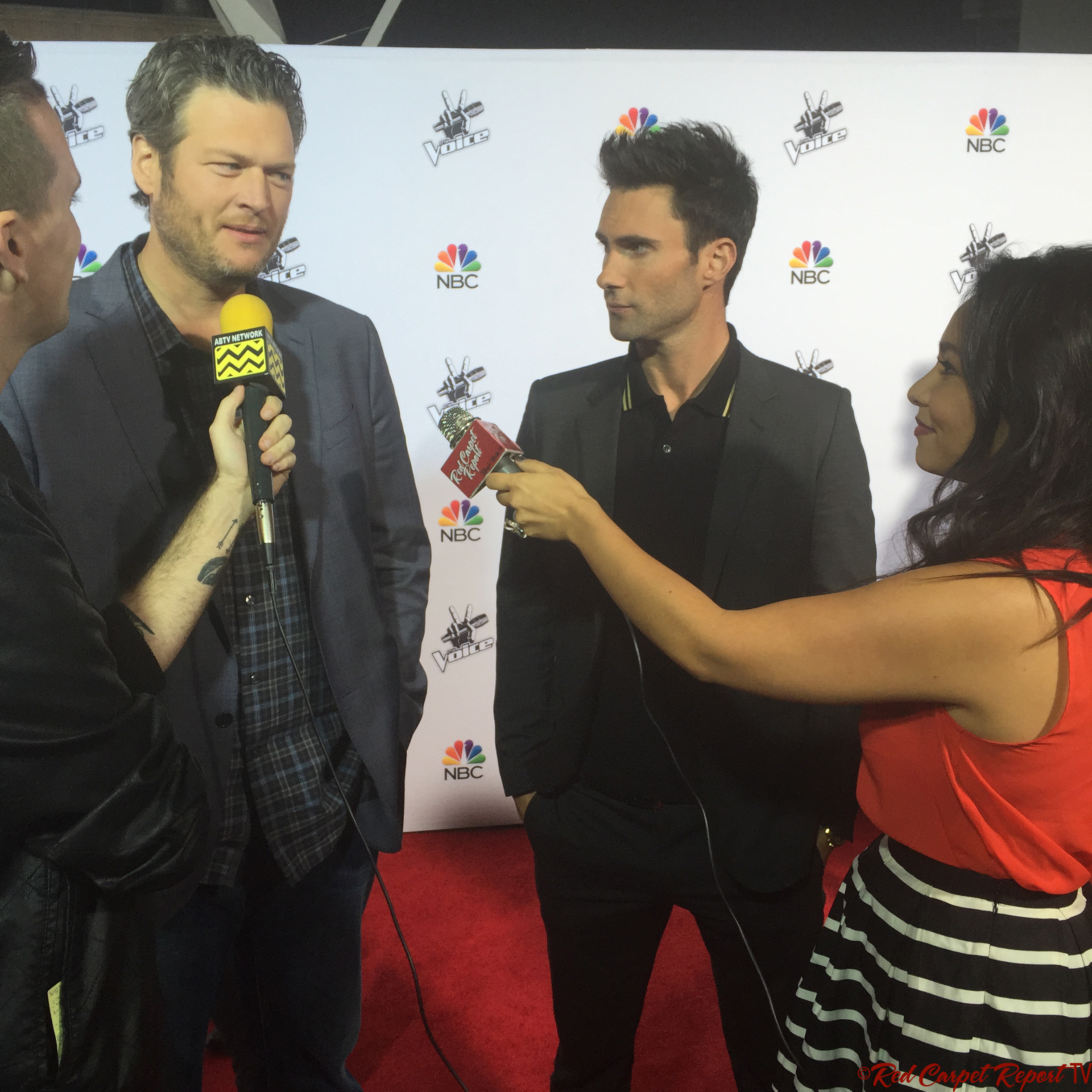 Blake Shelton and Adam Levine at The Voice VIP Screening at the Hard Rock Cafe